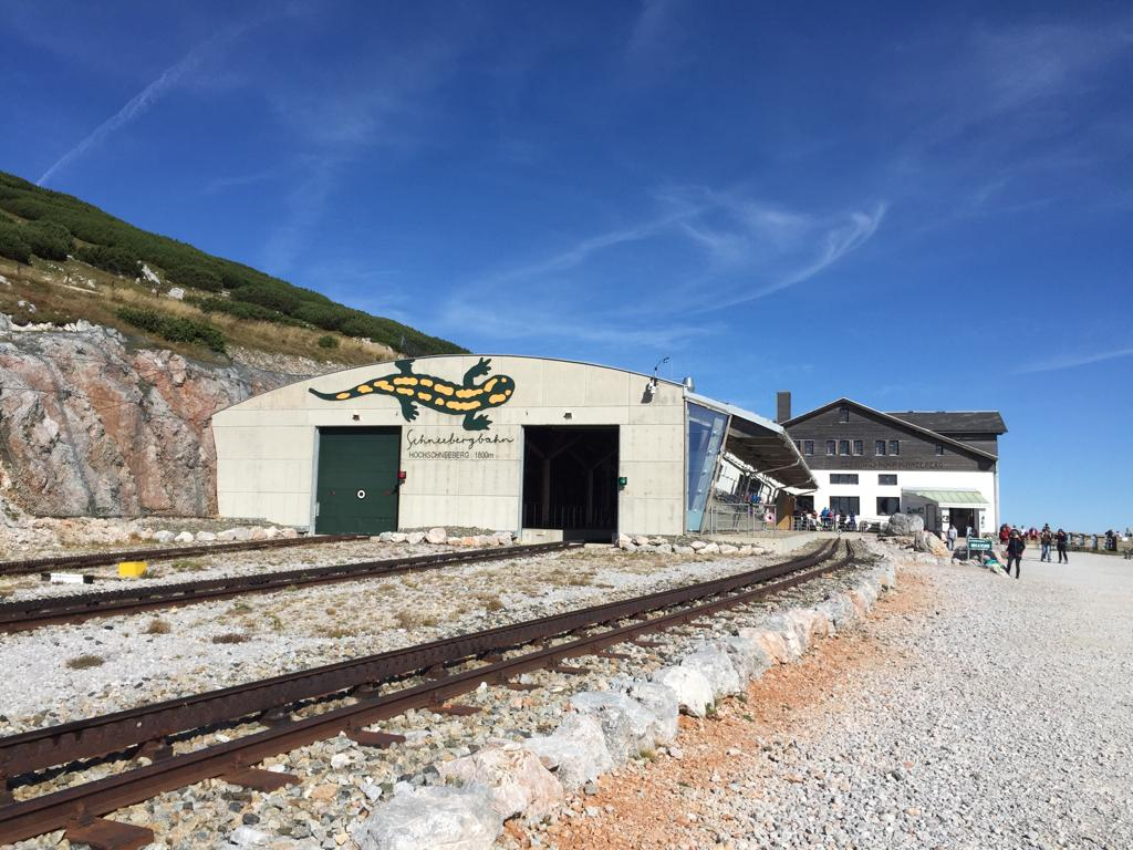 Schneebergbahn Mountain Terminal Station outside